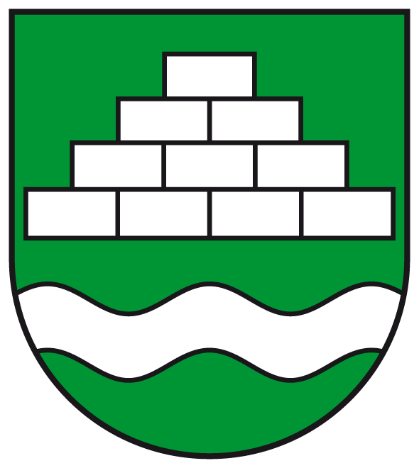 Coat of Arms of Velpke